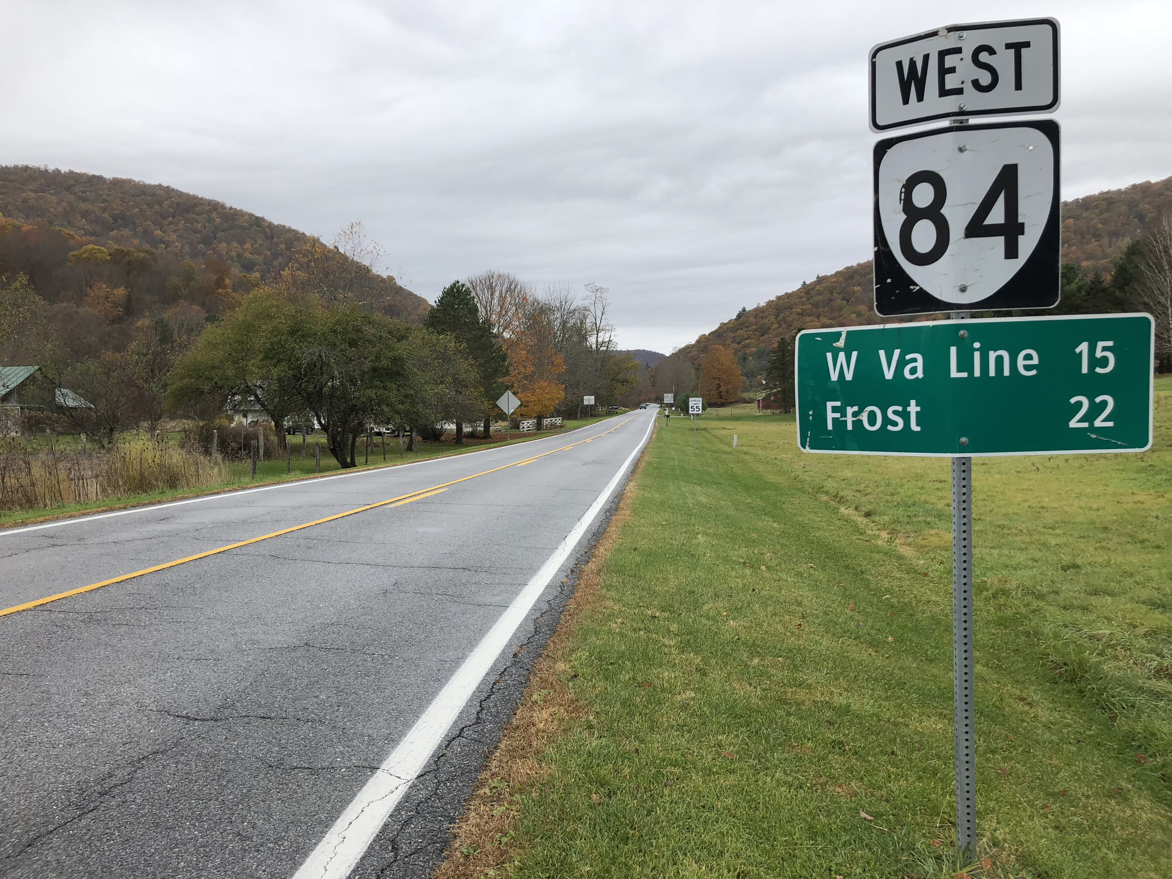 View west along Virginia State Route 84 (Mill Gap Road) just west of U.S. Route 220 (Jackson River Road) in Vanderpool, Highland County, Virginia